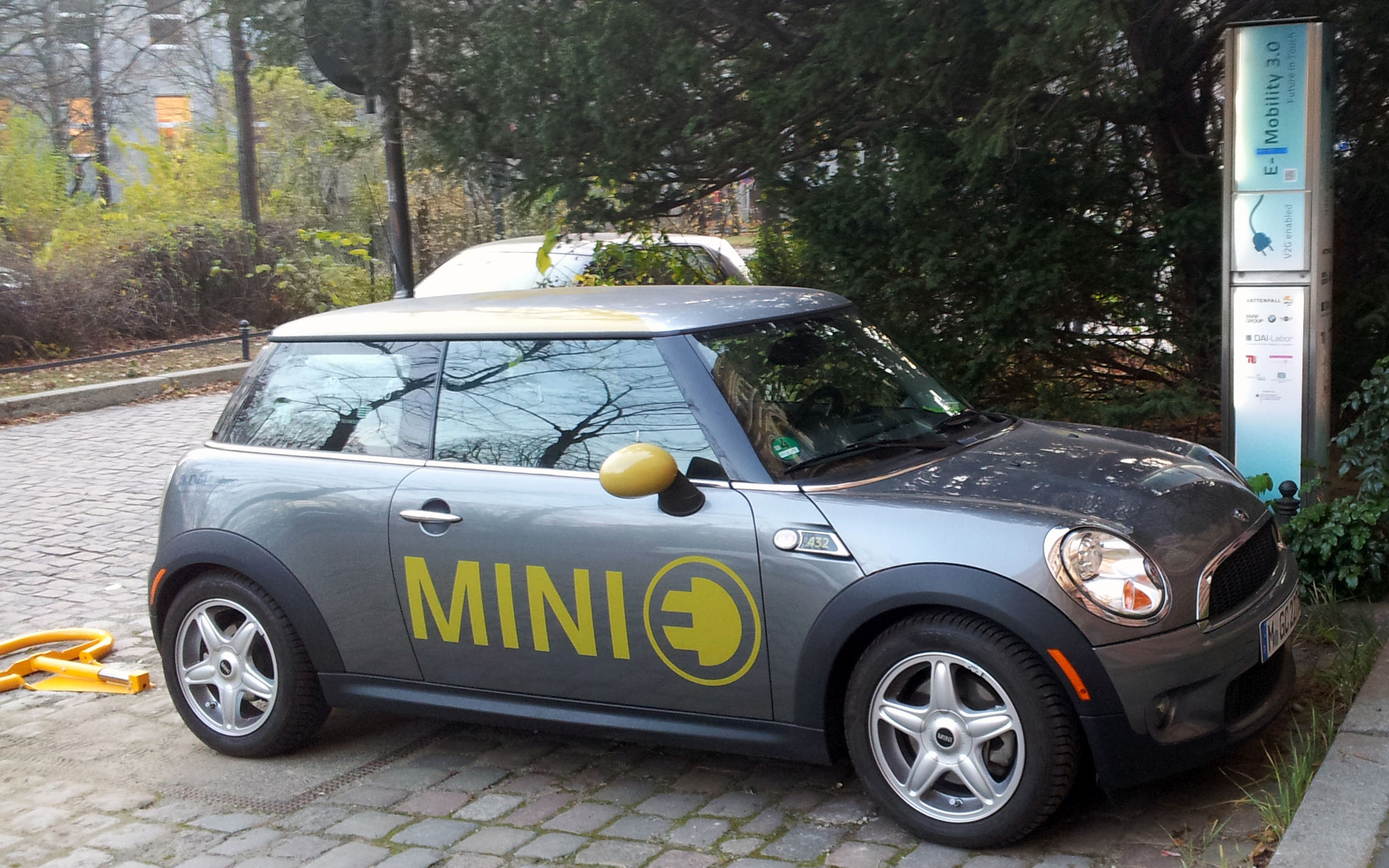 Mini E at a charging point on TU Berlin main campus